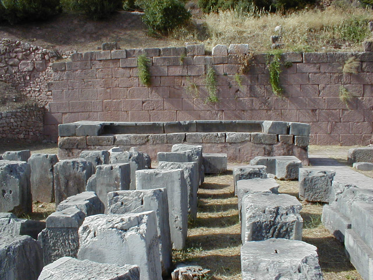 Exedra in the so-called "limestone temple"